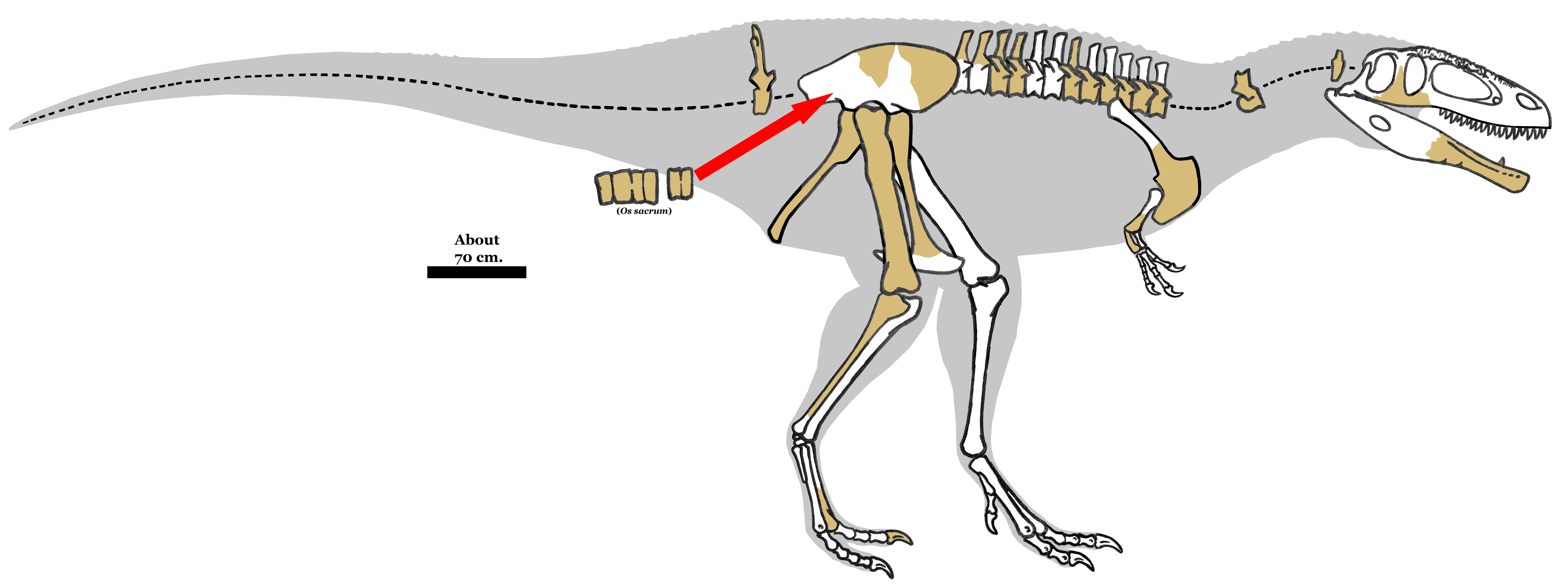 Skeletal diagram showing the remains after the giant theropod dinosaur Tyrannotitan chubutensis. Diagram primarly based on Fernando (2005),[1] and other sources.[2][3][4][5] Missing data is restorated, based on other allosauroids, like Giganotosaurus, Mapusaurus and Acrocanthosaurus. References ↑ Fernando E.N., Rich T. et.al. (2005), ”A large Cretaceous theropod from Patagonia, Argentina, and the evolution of carcharodontosaurids”, Naturwissenschaften 92(5): p. 226-230. ↑ Pais D.F. (2005), “Theropod pedal unguals from the Late Cretaceous (Cenomanian) of Morocco, Africa”, ‘’Revista del Museo Argentino de Ciencias Naturales, nueva serie 7(2): p. 167-175. ↑ Novas F.E., The Age of Dinosaurs in South America (Indiana University Press, 2009), p. 299-300. ↑ ↑